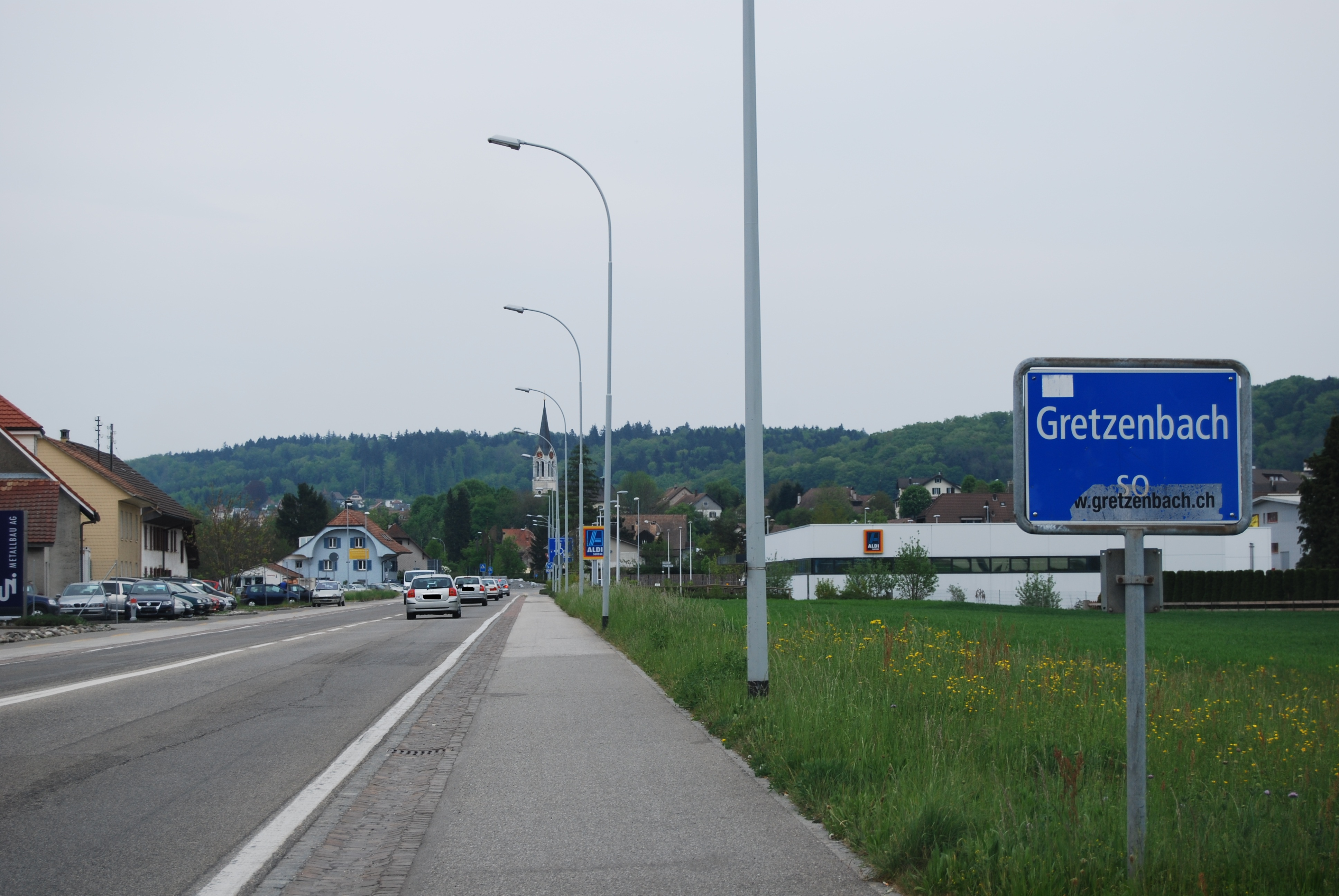 Gretzenbach, canton of Solothurn, Switzerland